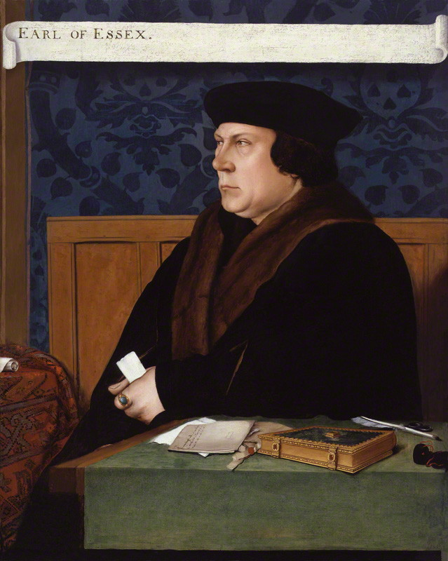 Portrait of Thomas Cromwell, based on a work of 1532-1533.